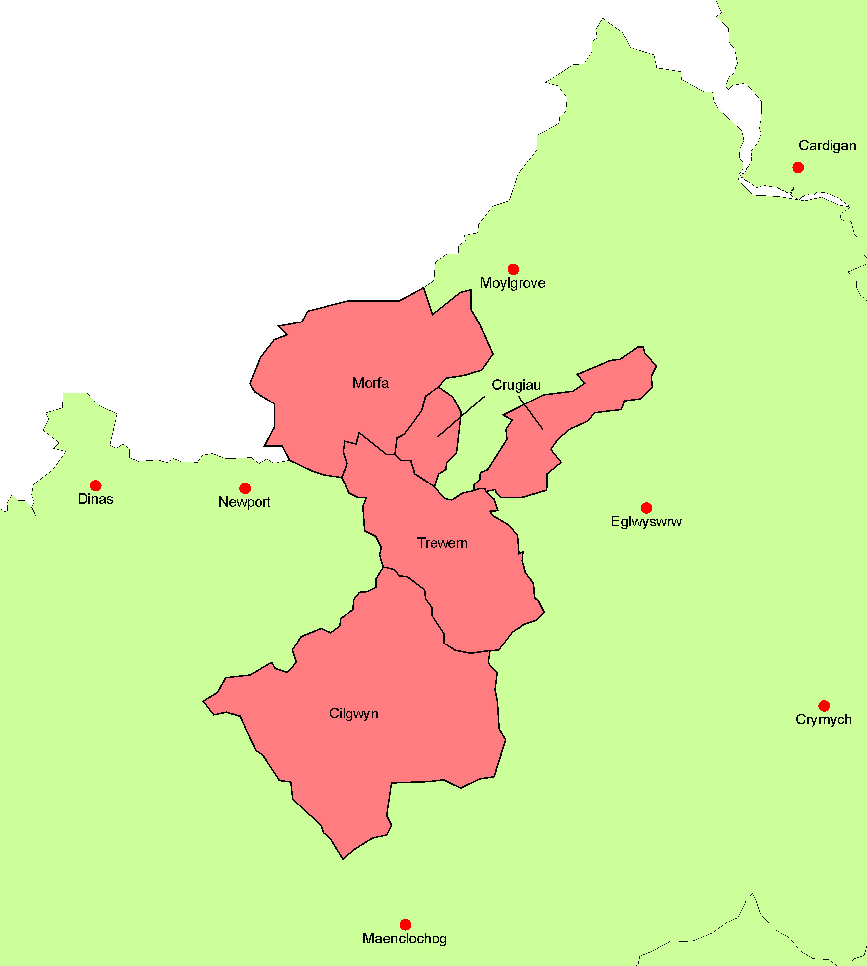 Map of Nanhyfer / Nevern Quarters (Sir Penfro /Pembrokeshire)